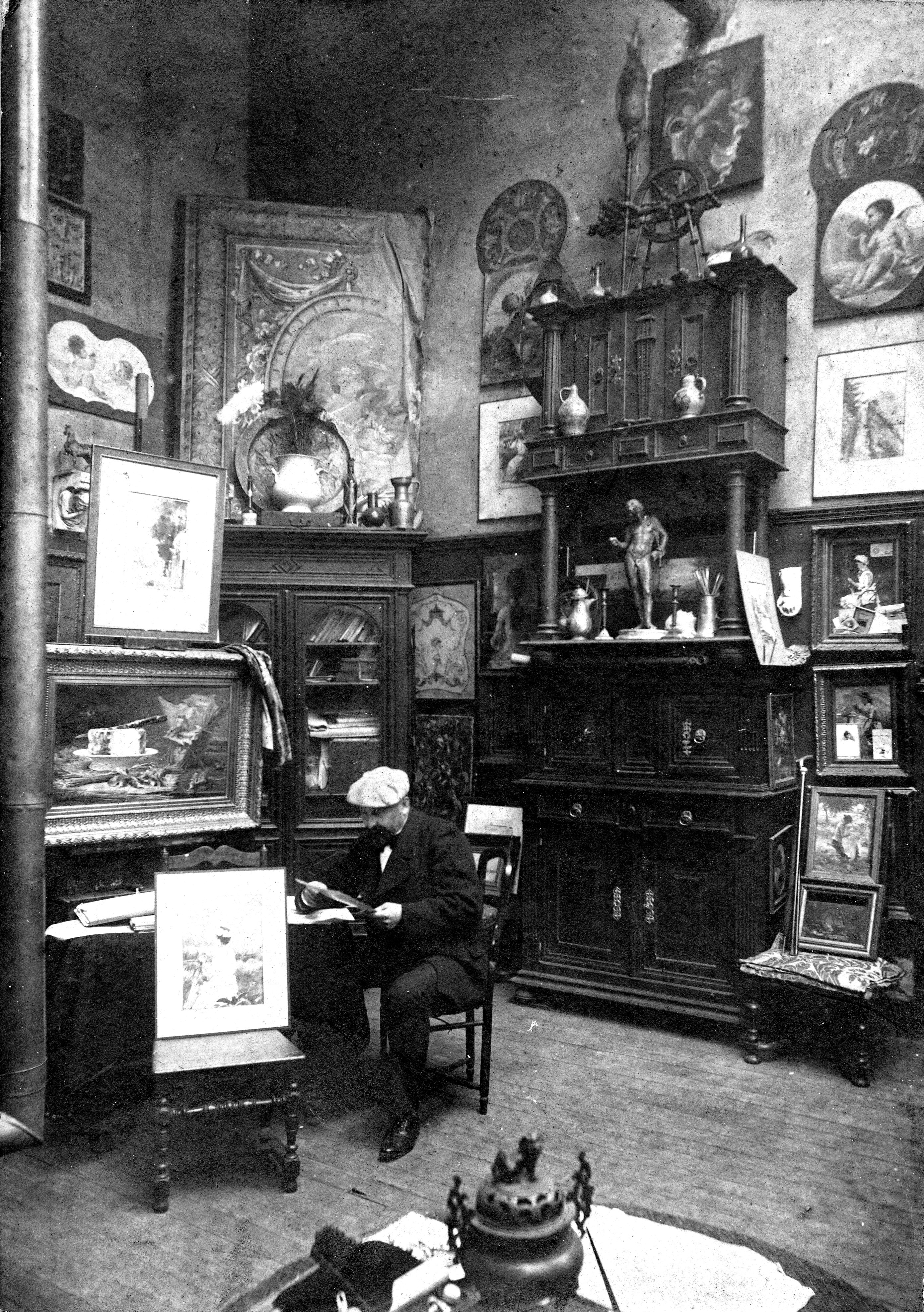 The painter Marcel Chollet probably in his atelier on 17 rue Victor-Massé